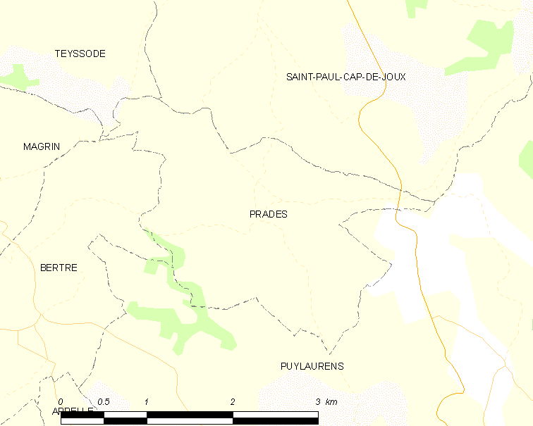 Map of French municipality Prades